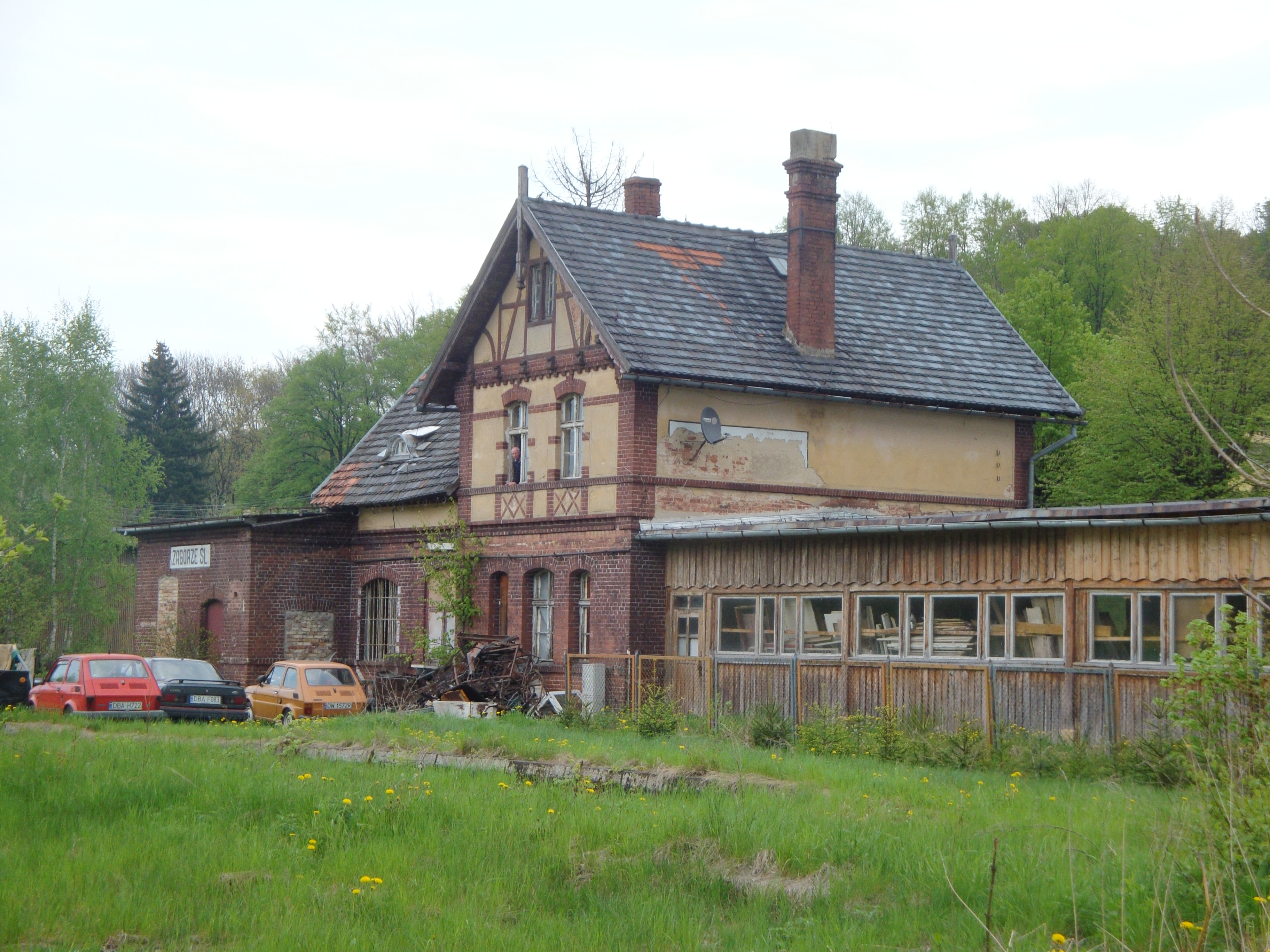 Former Train Station in Zagorze Slaskie